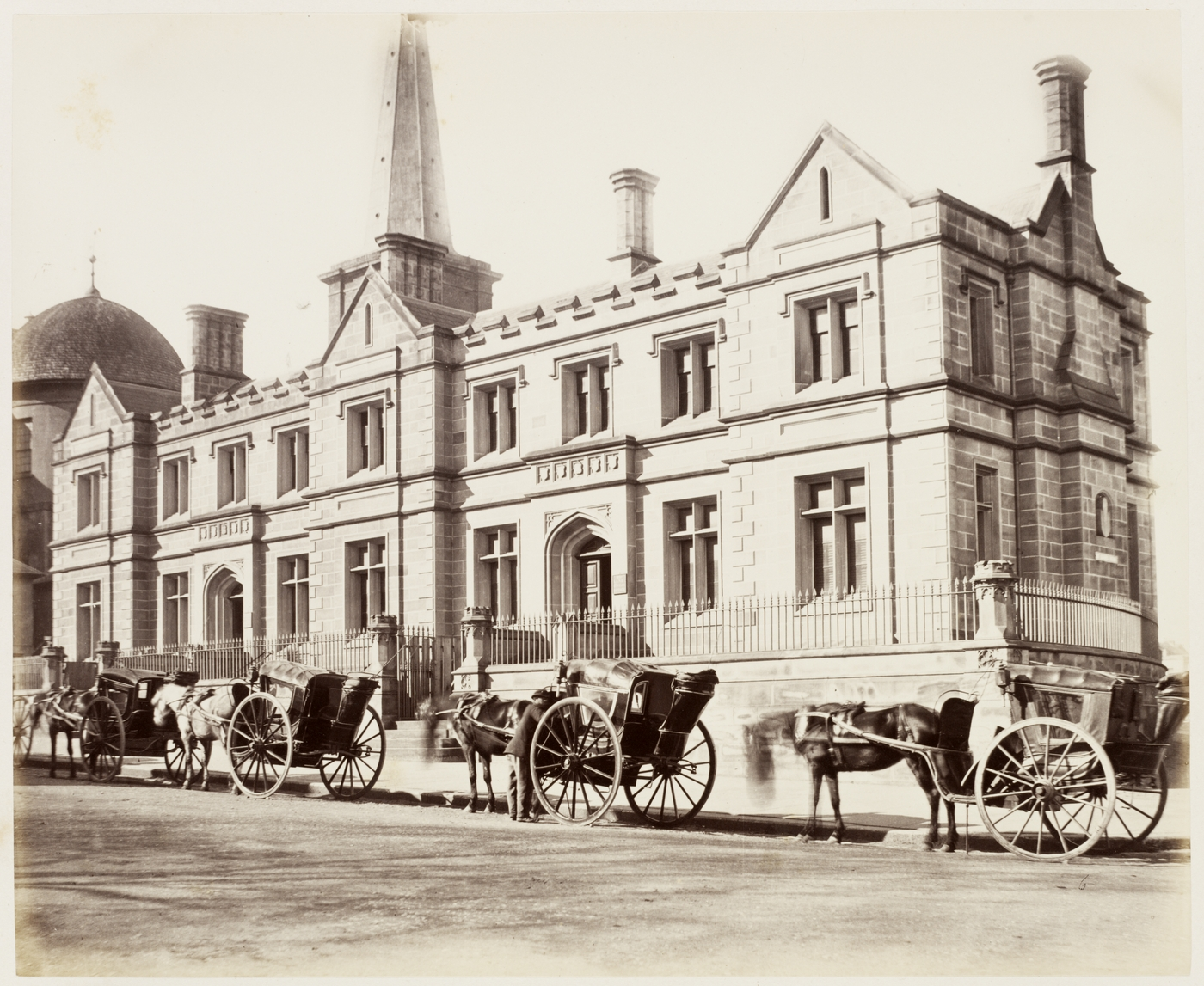 10. Registrar General's Office SH 562